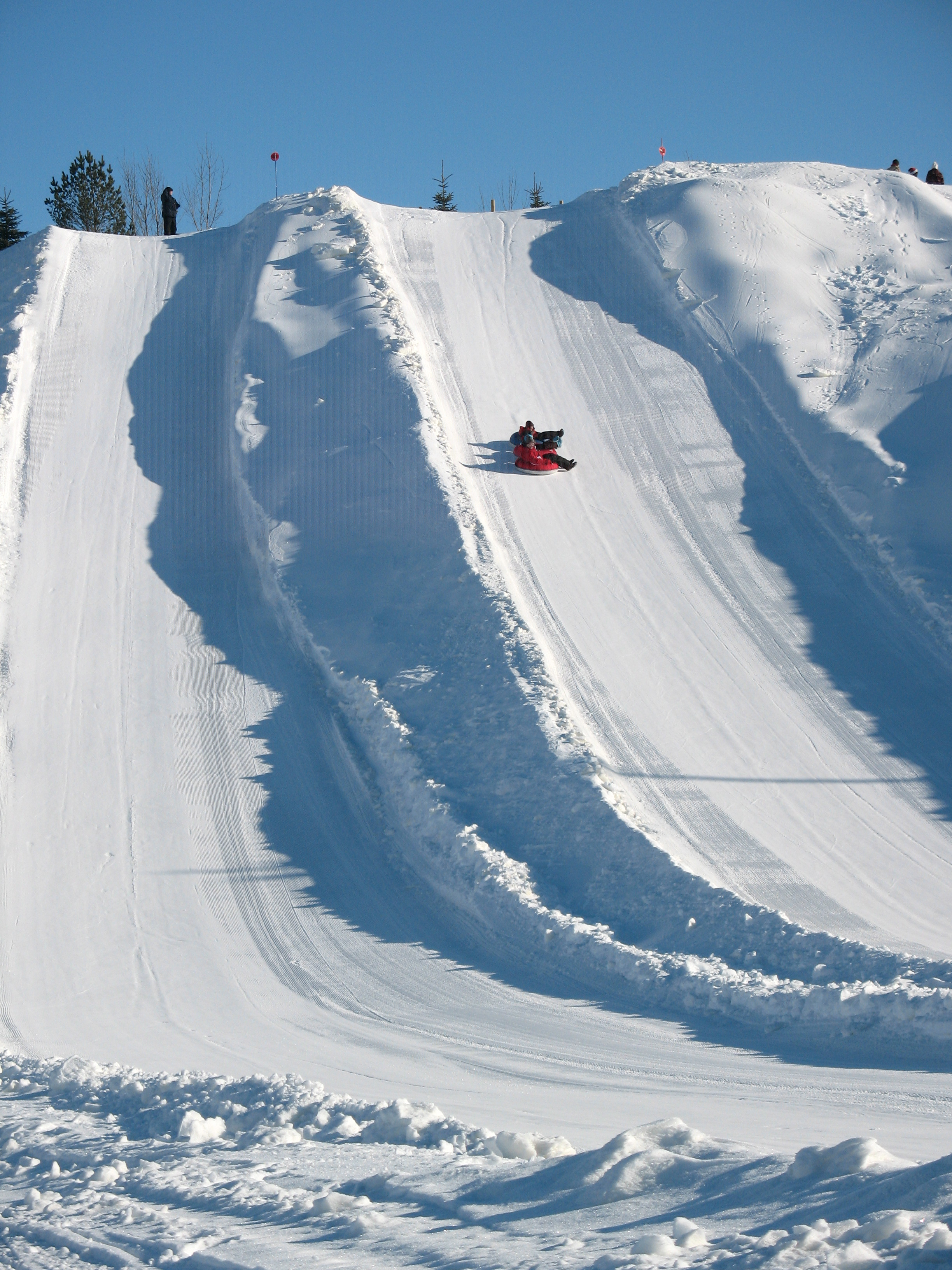 People sliding down the tubing hill at Great Bear in Sioux Falls, South Dakota.